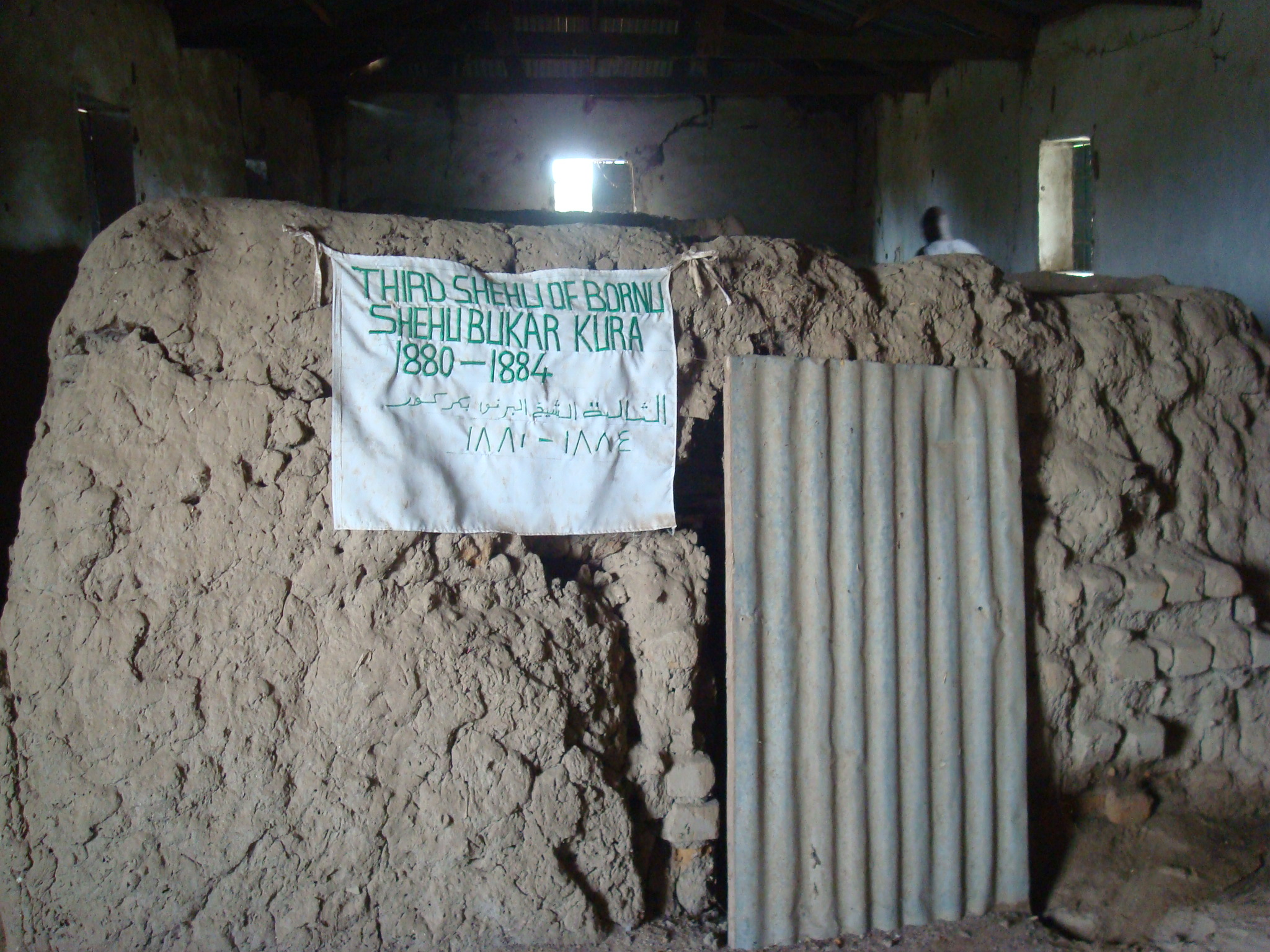 Tomb of the fourth Shehu of Borno, Bukar Kura, Kukawa, Borno State, Nigeria